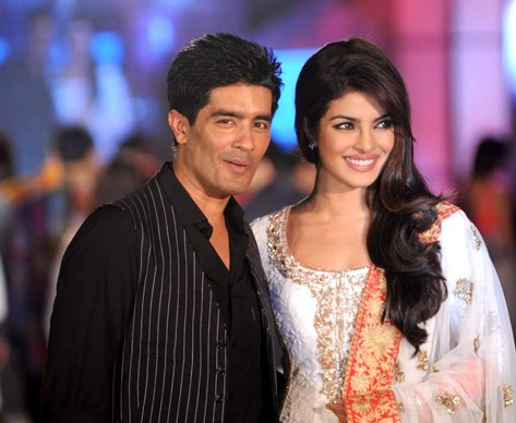 Priyanka Chopra walks for Manish Malhotra & Shaina NC's show for CPAA